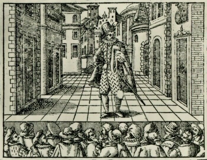 The opening prologo from Orazio Vecchi's madrigal comedy L'Amfiparnaso, from the libretto printed in Venice in 1597. The woodcut image shows actor delivering the prologue on the stage with the audience looking on. This is a crop of the source image to focus on the view of the stage